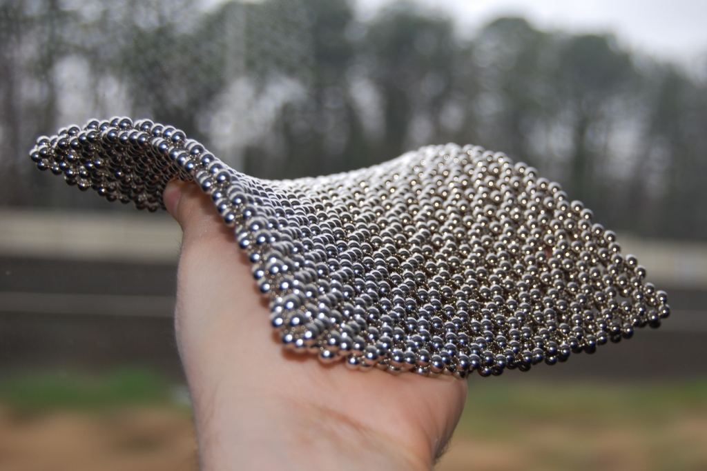 1728 Magnets. 2 layers of 12x12 grid of 6-magnet rings. Somewhat flexible, as shown.